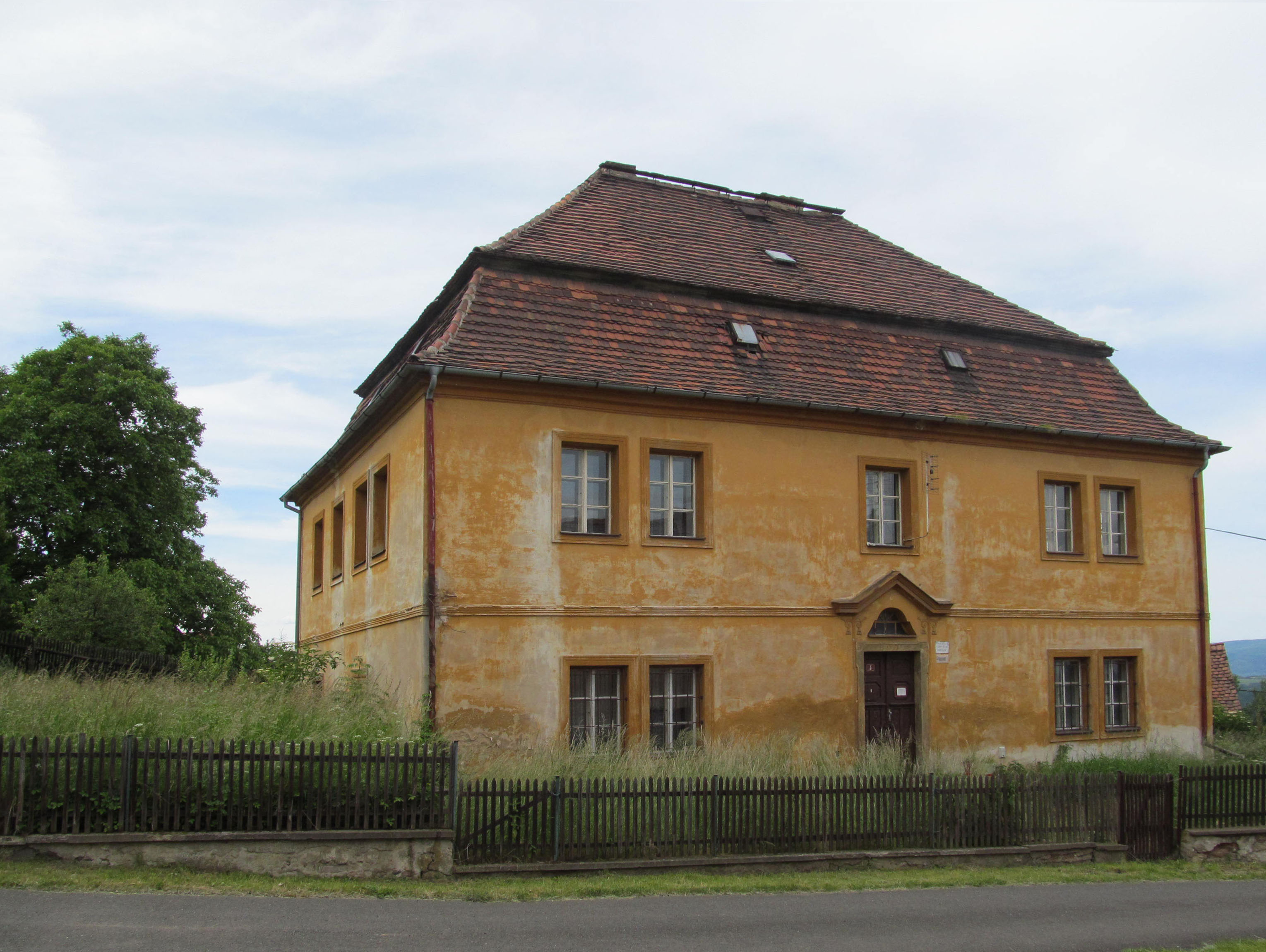 Rectory from 1737 in Bořislav.